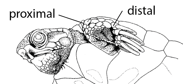 Standard Event System character depiction